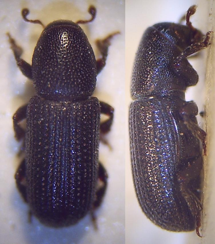 Hylastes ater imago